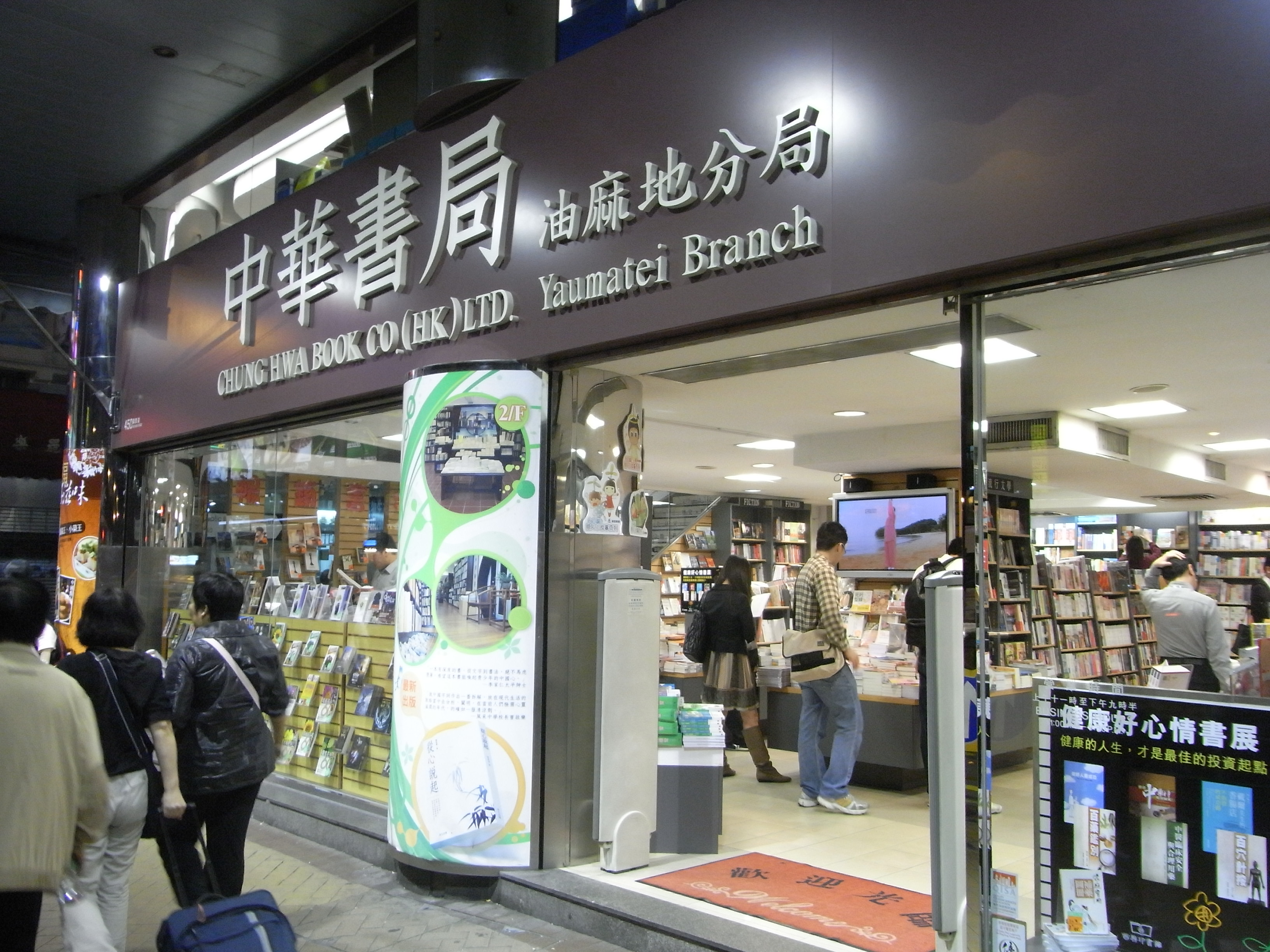 油麻地